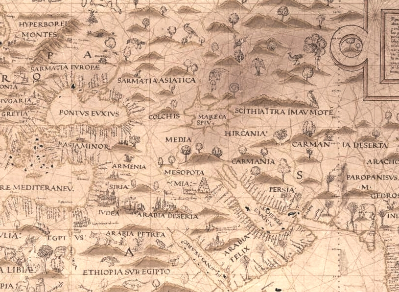 World Map (Original text: National Library of Australia World Map) Description: Carta universal en que se contiene todo lo que del mundo se ha descubierto fasta agora / hizola Diego Ribero cosmographo de su magestad, ano de 1529, e[n] Sevilla London: W. Griggs, [1887?] 1 map on 2 sheets: col.; 58 x 140 cm., sheets 61 x 79 cm and 61 x 66 cm. Note: "Reproduced from the original in the Museum of the 'Propaganda' in Rome, lent by His Holiness Pope Leo XIII, by W. Griggs, London." In lower margin: The second Borgian map by Diego Ribero, Seville 1529